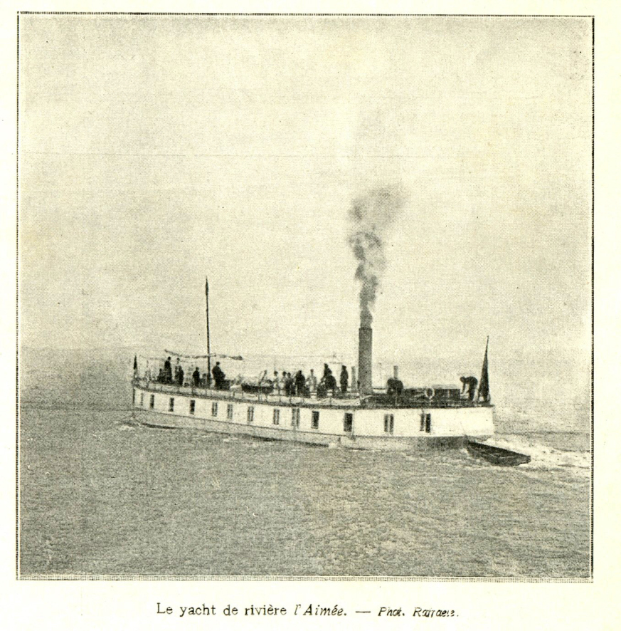 Le yacht de rivière l’Aimée, circa 1900.